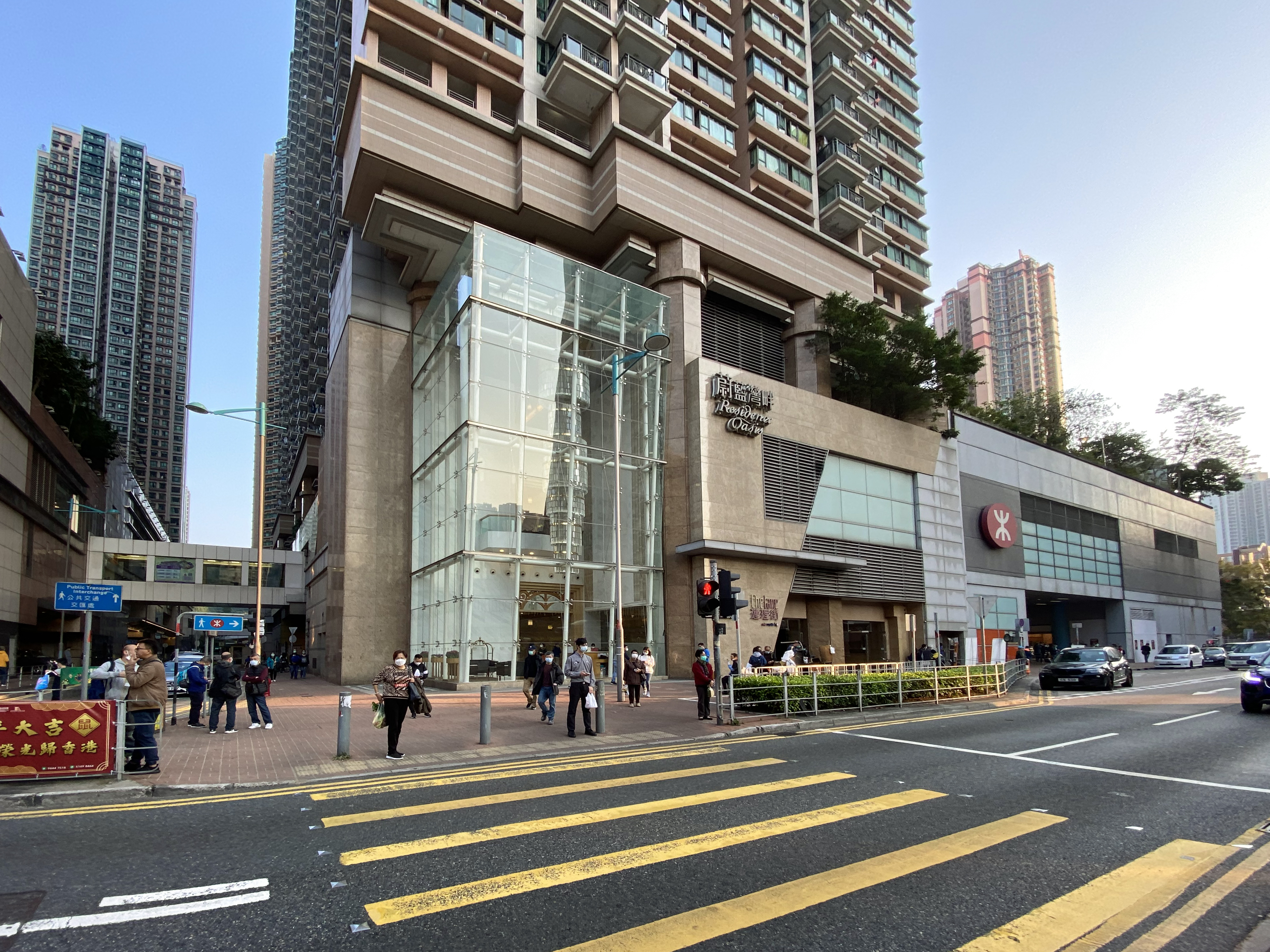 Residence Oasis Entrance Lobby exterior view